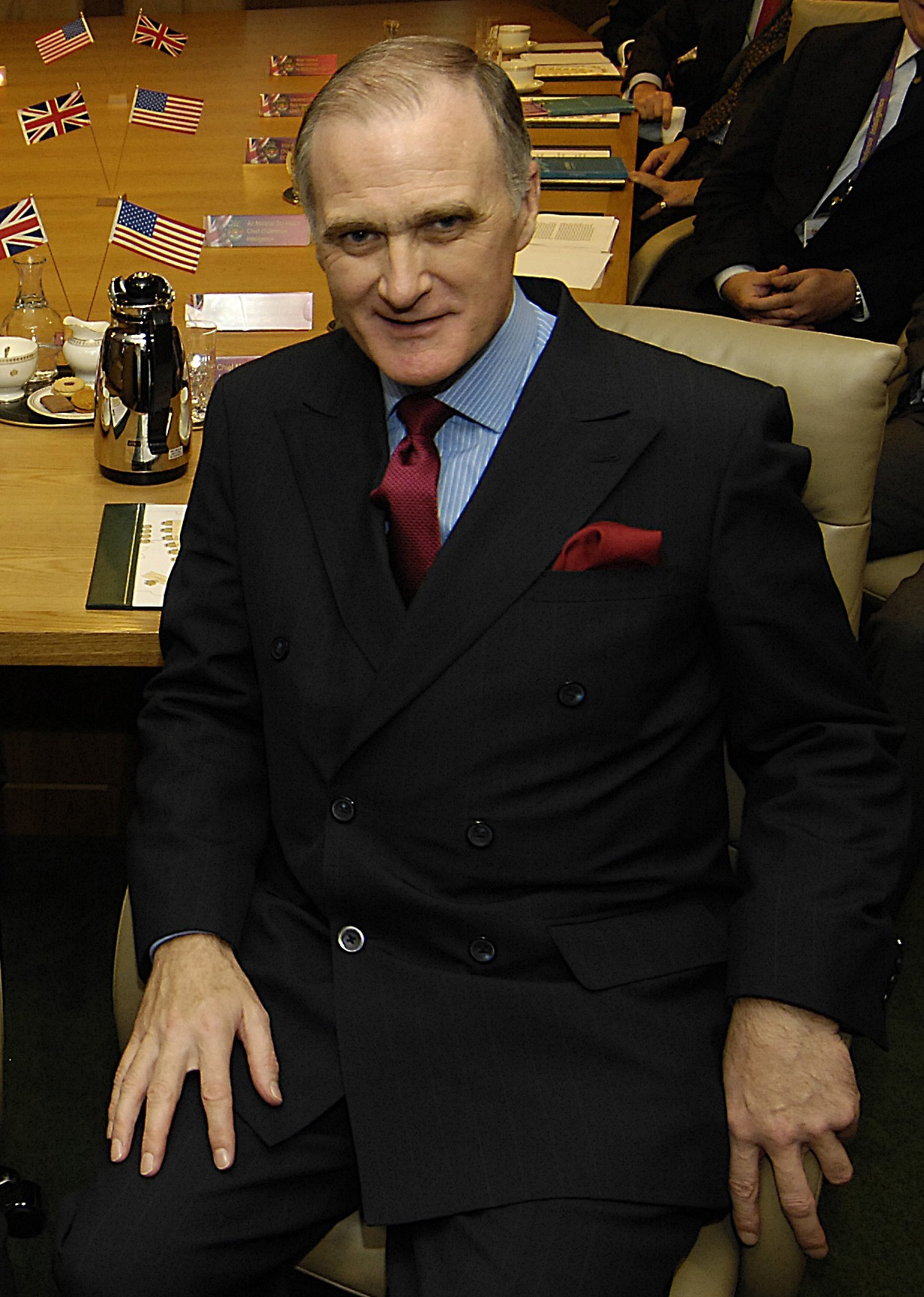 Air Chief Marshal Sir Jock Stirrup, prior to a meeting at the British Ministry of Defense in London, Oct. 26, 2006.